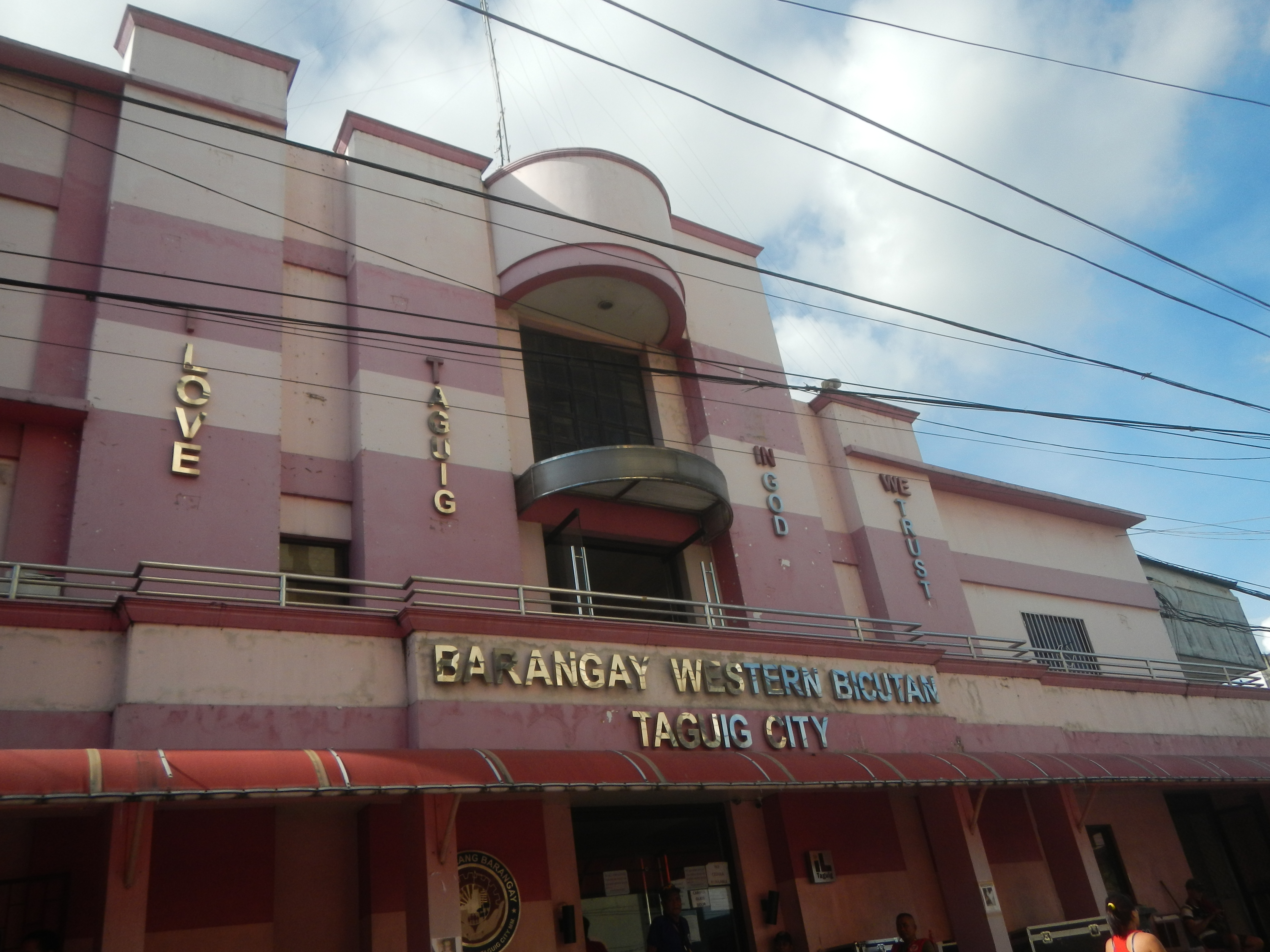 Our Lady of the Poor Parish Church (Parokya Ng Ina Ng Mga Dukha) - FB Tenement, Bagong Lipunan Condominium, Western Bicutan, Taguig City) Sampaguita St. Established as Chapel 1965 as Parish on December 9, 1993 Blessed on September 7, 2011 Roman Catholic Diocese of Pasig Upper Bicutan, Taguig City Legislative district of Taguig City Legislative district of Pateros-Taguig City Barangay Barangay Western Bicutan, Taguig City Western Bicutan (Taguig) 14°31'3"N 121°2'22"E Taguig City (Note: Judge Florentino Floro, the owner, to repeat, Donor Florentino Floro of all these photos hereby donate gratuitously, freely and unconditionally all these photos to and for Wikimedia Commons, exclusively, for public use of the public domain, and again without any condition whatsoever).